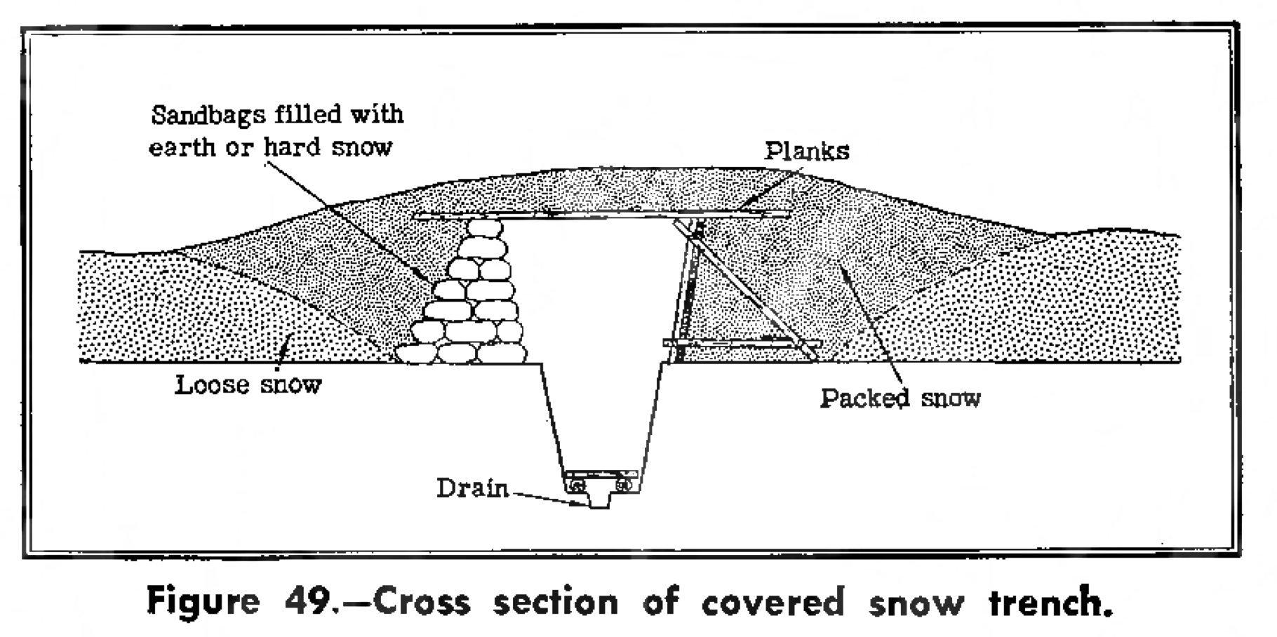 The 1942 German Taschenbuch für den Winterkrieg manual contains discusses winter, mud, and thaw with sections on the influence and duration of winter, the seasons of mud and thaw, preparation for winter warfare, winter combat methods and maintaining morale, including the use of reading material, lectures, movies, and "strength through joy" exercises. Other sections cover marches, the maintenance of roads, winter bivouacs and shelter, construction of winter positions, camouflage and concealment, identification of the enemy, clothing, rations, evacuation of the wounded, care and use of weapons and equipment, signal communication, and winter mobility. The manual was designed to provide information at the officer level for indoctrination of troops via the non-commissioned officer ranks.